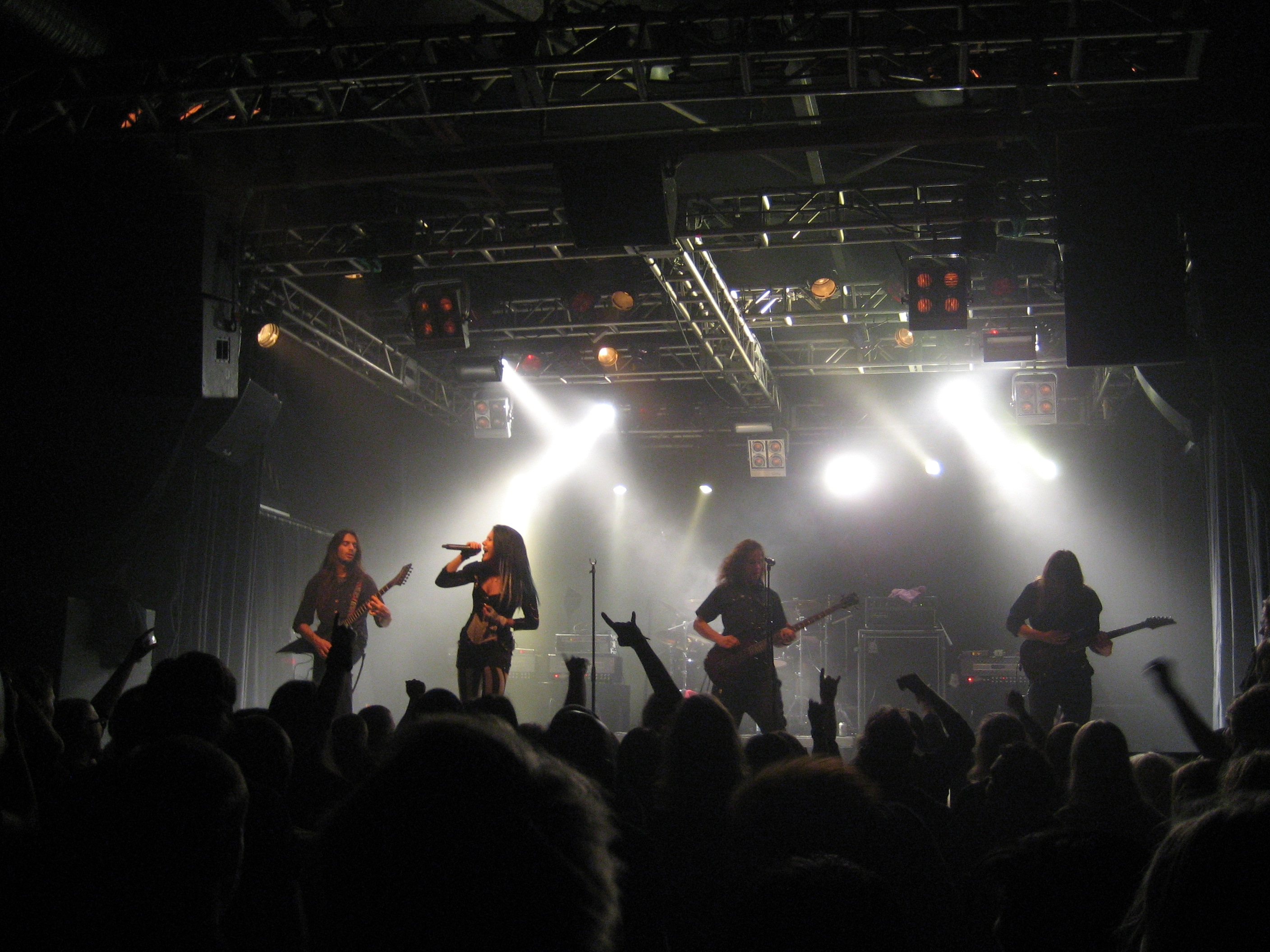 The Agonist playing live at Nosturi, Helsinki.